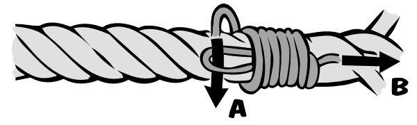 bind a common whipping (step 3), selfdrawn, GNU-FDL drawing by: Hella Handdrawing 1995, 2004 new revised with autotrace [1], sodipodi[2] and gimp [3] for the german wikipedia. first publicated: 1995 in Knoten (nicht nur) für Pfadfinderinnen, publisher PSG München alternative view (all steps in one picture): common wipping binding other pictures of this series: rope without wipping, step 1, step 2, finished common wipping 18:10, 21 May 2004 Hella 600x180 (38,407 bytes) (*bind a common whipping (step 3), selfdrawn, GNU-FDL)